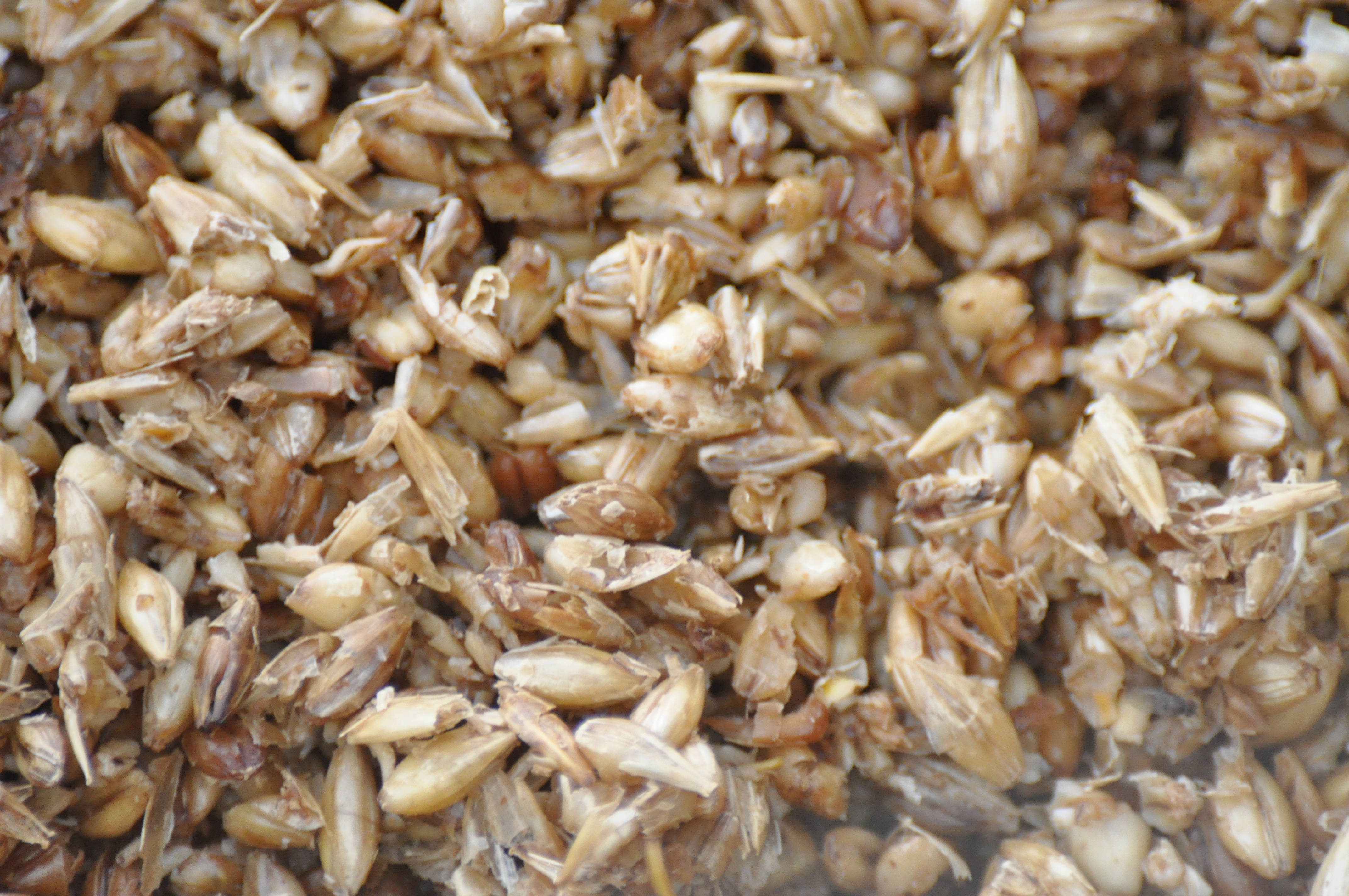 Grain hulls left over after being used for brewing